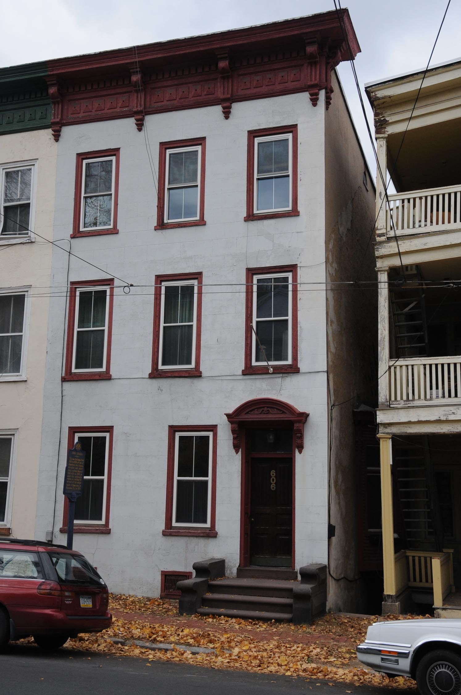 JOHN O’HARA BIRTHPLACE; WELL KNOWN NOVELIST AND SHORT STORY WRITER WHO WROTE PAL JOEY AND 10 NORTH FREDERICK WHICH BECAME A MOVIE